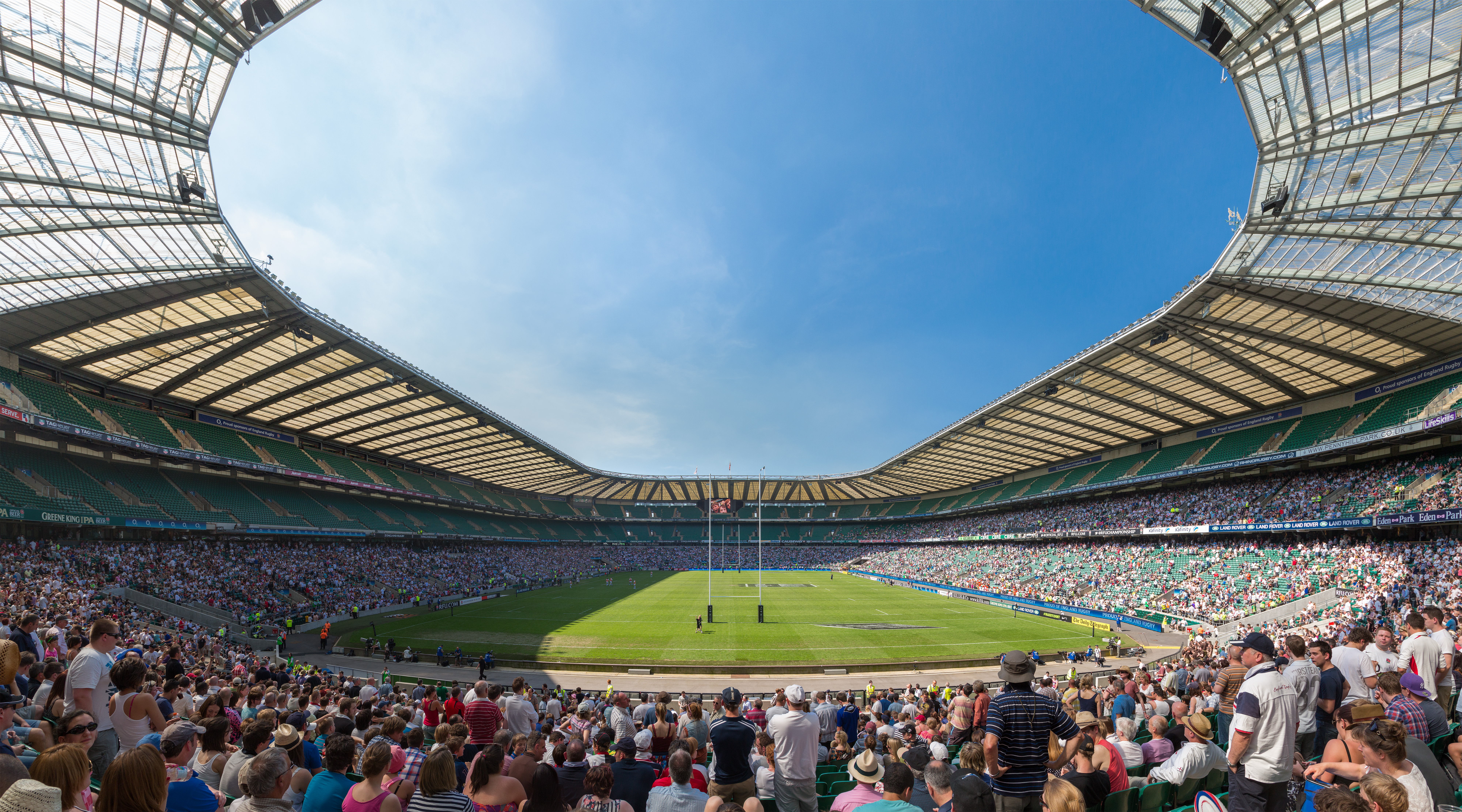 A panoramic stitched image of Twickenham Stadium, comprised of six segments (2x3).